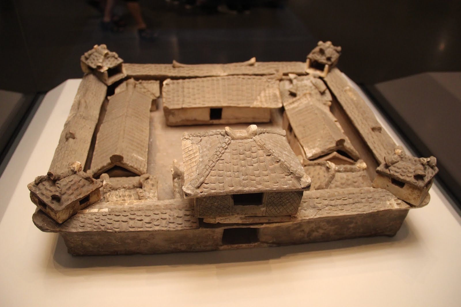 Pottery dwelling around a large courtyard, siheyuan. Unearthed in 1967 in a Wu kingdom tomb in Hubei. Three Kingdoms period. National Museum, Beijing